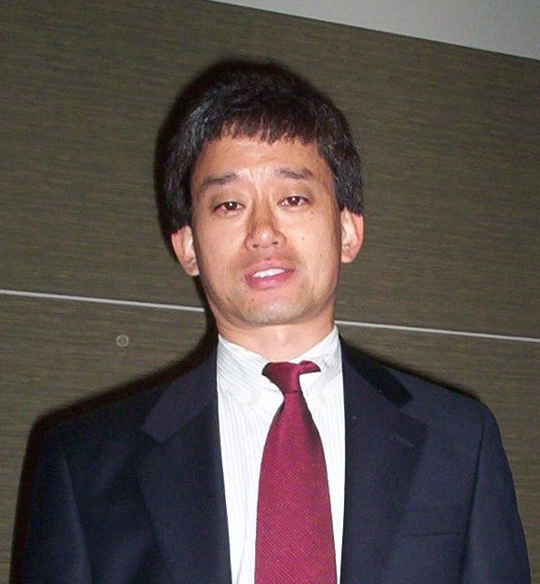 Gregory Fu at the 2007 Boston ACS meeting